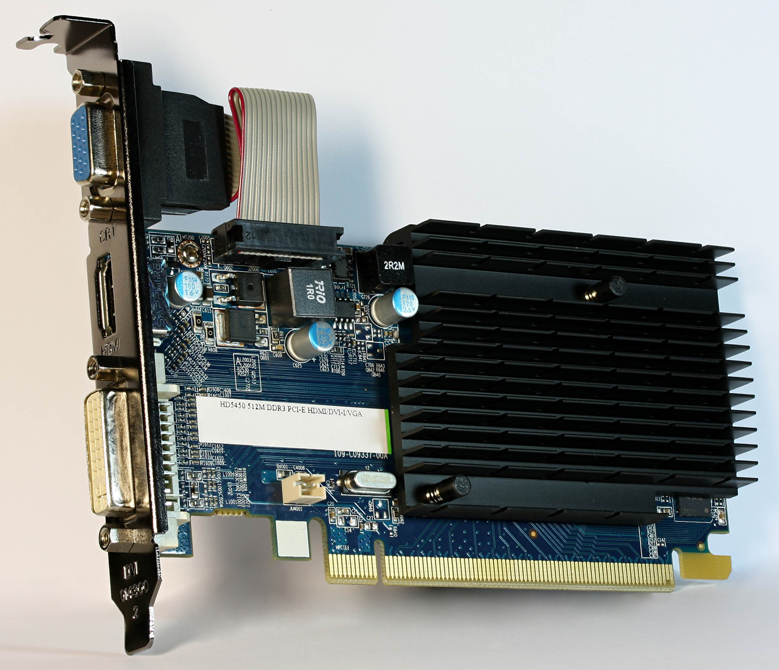 The front side of a Sapphire Radeon HD 5450 (see also Evergreen (GPU family))